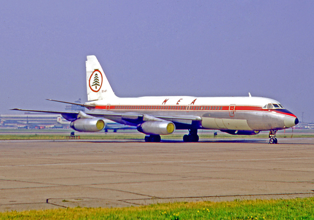 Convair 990A OD-AFI of Middle East Airlines at London Heathrow Airport in 1970